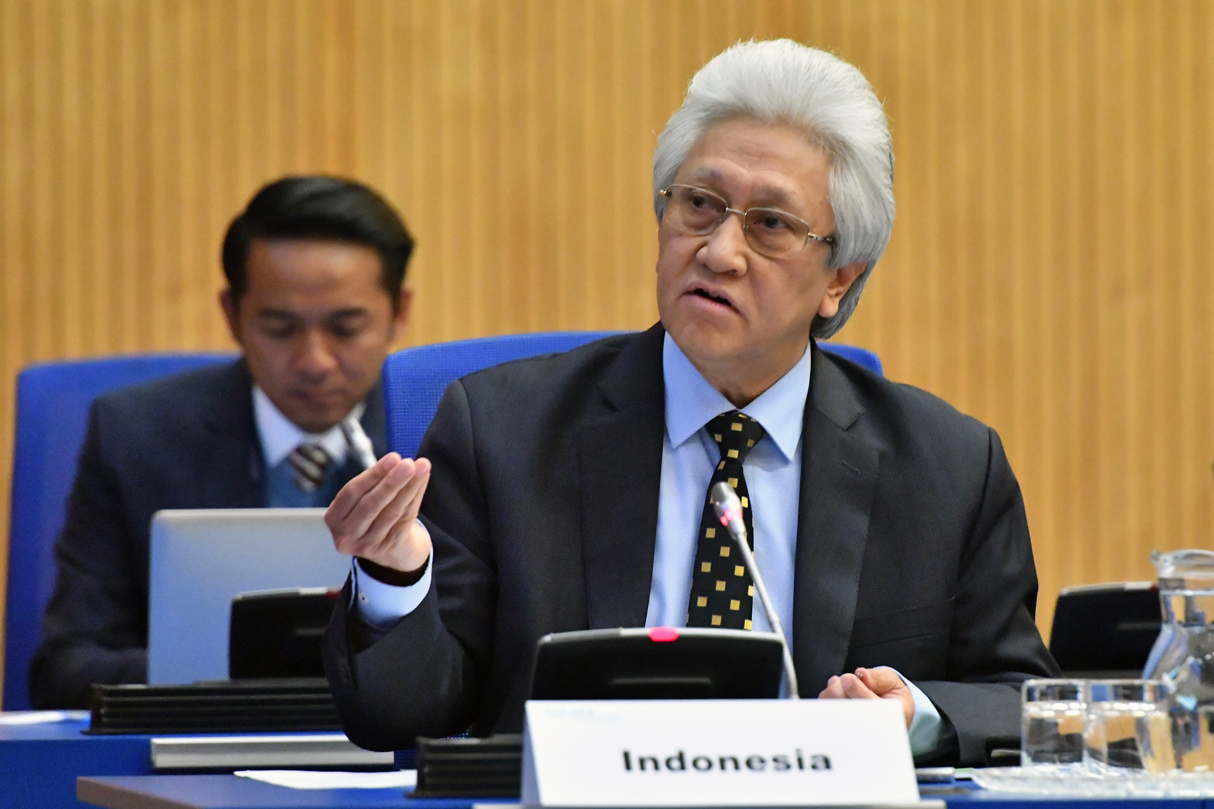 HE Darmansjah Djumala, Resident Representative of Indonesia to the IAEA, delivers her remarks at the meeting of the ASEAN Group of Ambassadors on plastic related project in the region held at the Agency headquarters in Vienna, Austria. 15 July 2020 Photo Credit: Dean Calma / IAEA ASEAN HE Darmansjah Djumala, Resident Representative of Indonesia to the IAEA Mr. Vandy Boutsady, Charge d' Affairs, Lao People’s Democratic Republic HE Mr. Dato’ Ganeson Sivagurunathan, Resident Representative of Malaysia to the IAEA HE Mr. San Lwin Resident Representative of Myanmar to the IAEA HE Maria Cleofe Rayos Natividad, Resident Representative of the Philippines to the IAEA Mr. Syed Noureddin Bin Syed Hassim, Minister-Counsellor, Deputy Permanent Representative of Singapore HE Ms. Morakot Sriswasdi, Resident Representative of Thailand to the IAEA HE Mr. Le Dzung, Resident Representative of Viet Nam to the IAEA IAEA Rafael Mariano Grossi, IAEA Director General Jacek Bylica, IAEA Chief of Cabinet Edgard Perez Alvan, Assistant to the DG and Deputy Coordinator Najat Mokhtar, IAEA Deputy Director General and Head of the Department of Nuclear Sciences and Applications Sayed Ashraf, IAEA Special Assistant to the Director General for Nuclear Energy, Nuclear Applications and Technical Cooperation Ewelina Hilger, IAEA Special Advisor to the Director General Shota Kamishima, IAEA Senior Coordination Officer, Director General’s Office for Coordination Jane Gerardo-Abaya, IAEA Director, Division for Asia and the Pacific, Department of Technical Cooperation Jean-Pierre Cayol, Departmental Programme Coordinator, Department of Nuclear Sciences and Applications Melissa Denecke, IAEA Director, Division of Physicla and Chemical Sciences Mahfoudh Serhan Abdullah, IAEA Programme Coordinator